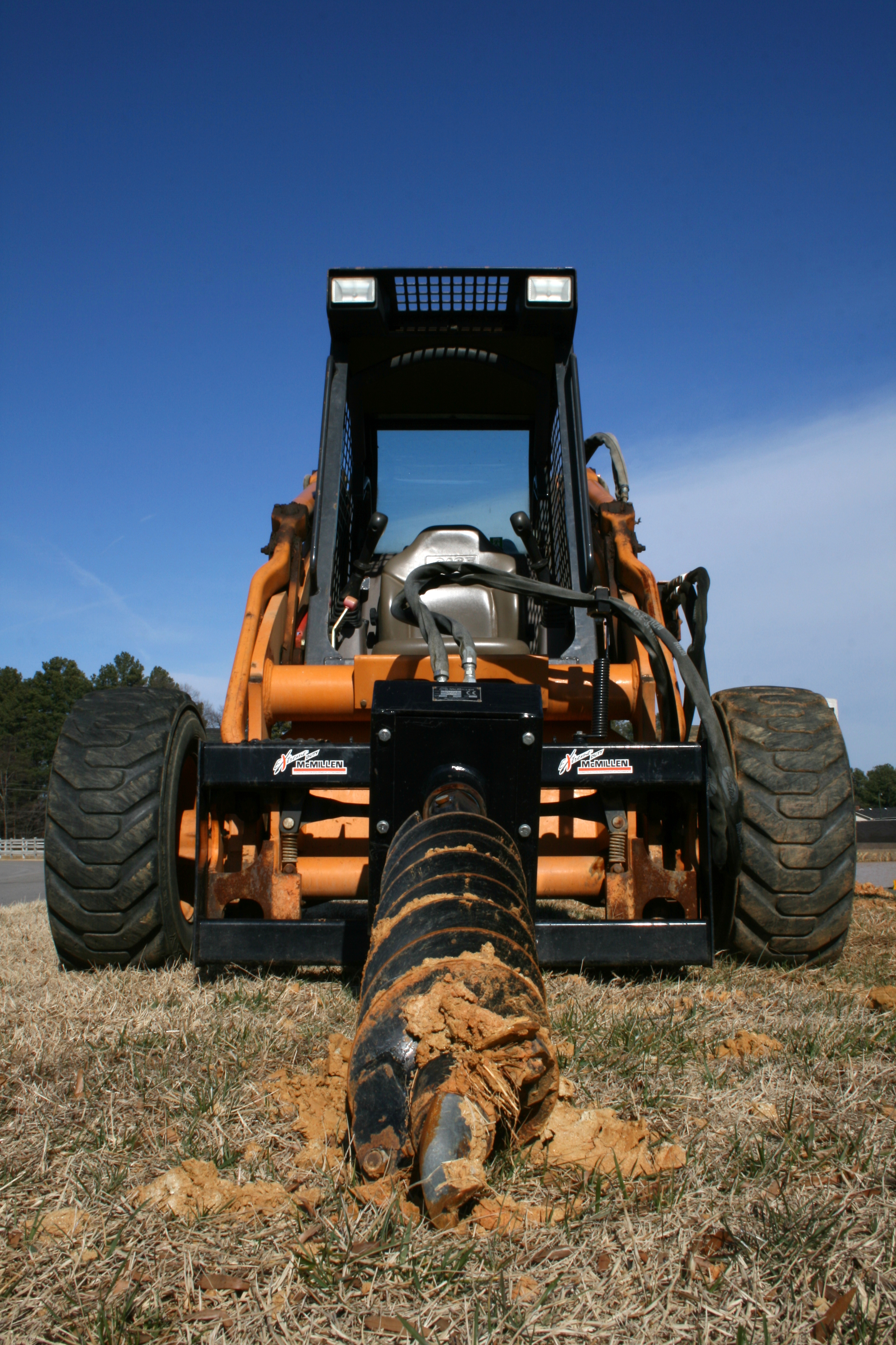 A skid-steer loader with a McMillen eXtreme Duty auger attachment in Oxford, North Carolina.